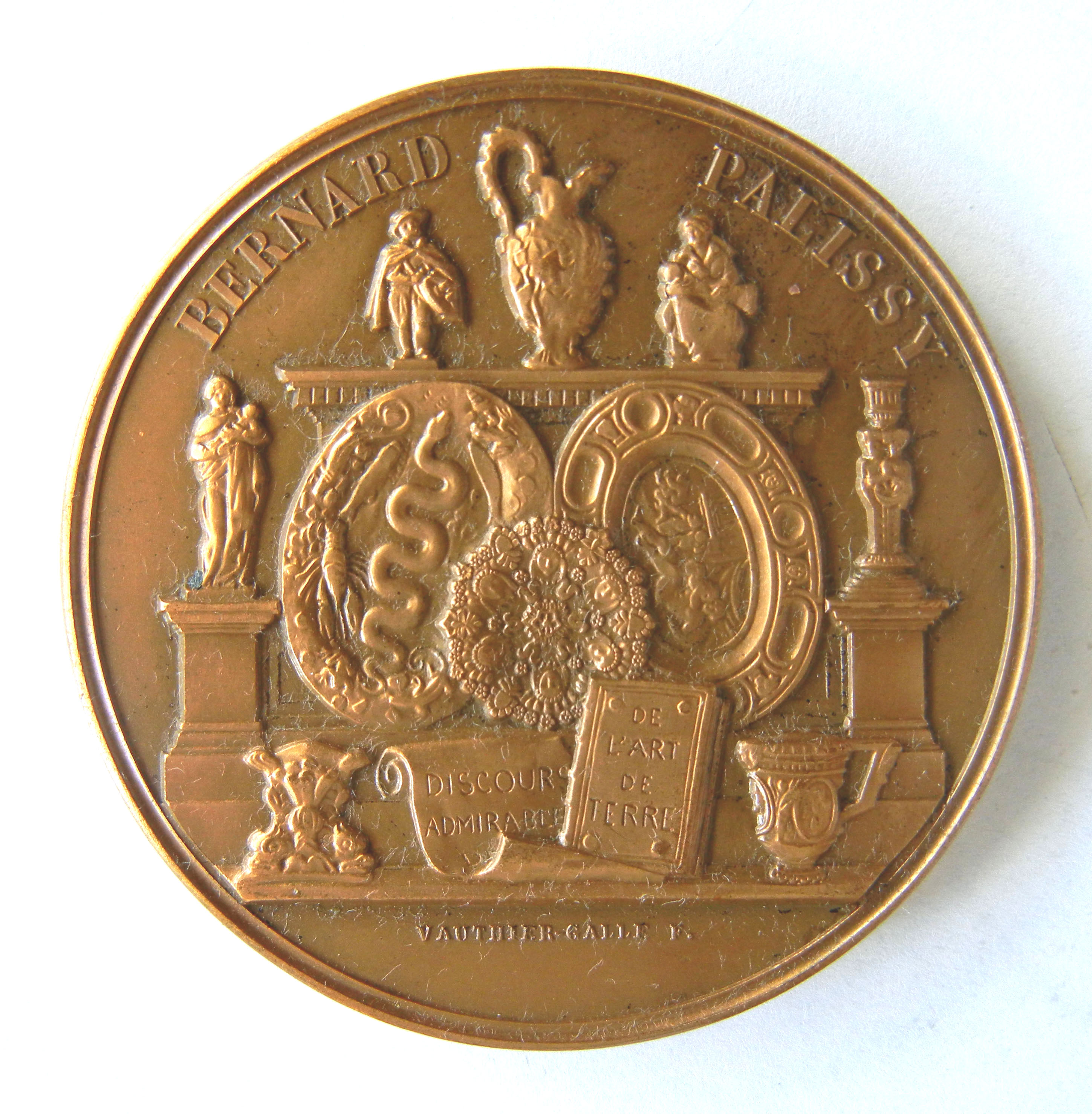 medal Bernard Palissy school Agen Centenary Alumni Association (1880 - 1980) Engraver: André-Vauthier Galle (1818-1899) Bronze medal Diameter: 51, weight 70 grams